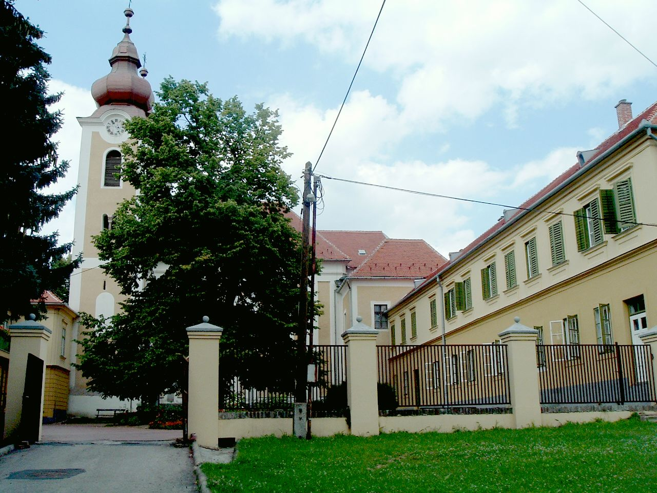 Nagykapornak abbey